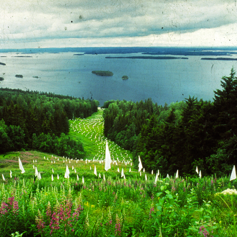 Casagrande & Rintala: 1000 White Flags, Koli National Park, Finland 2000